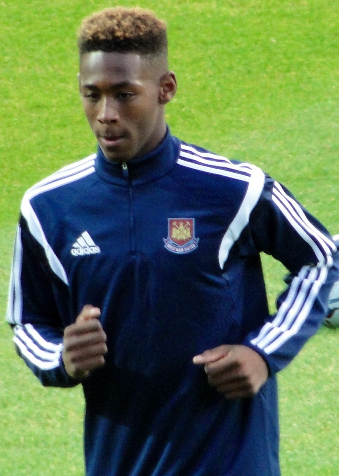 West Ham player Reece Oxford warming up before their Football League Cup game at the Boleyn Ground against Sheffield United, August 2014.